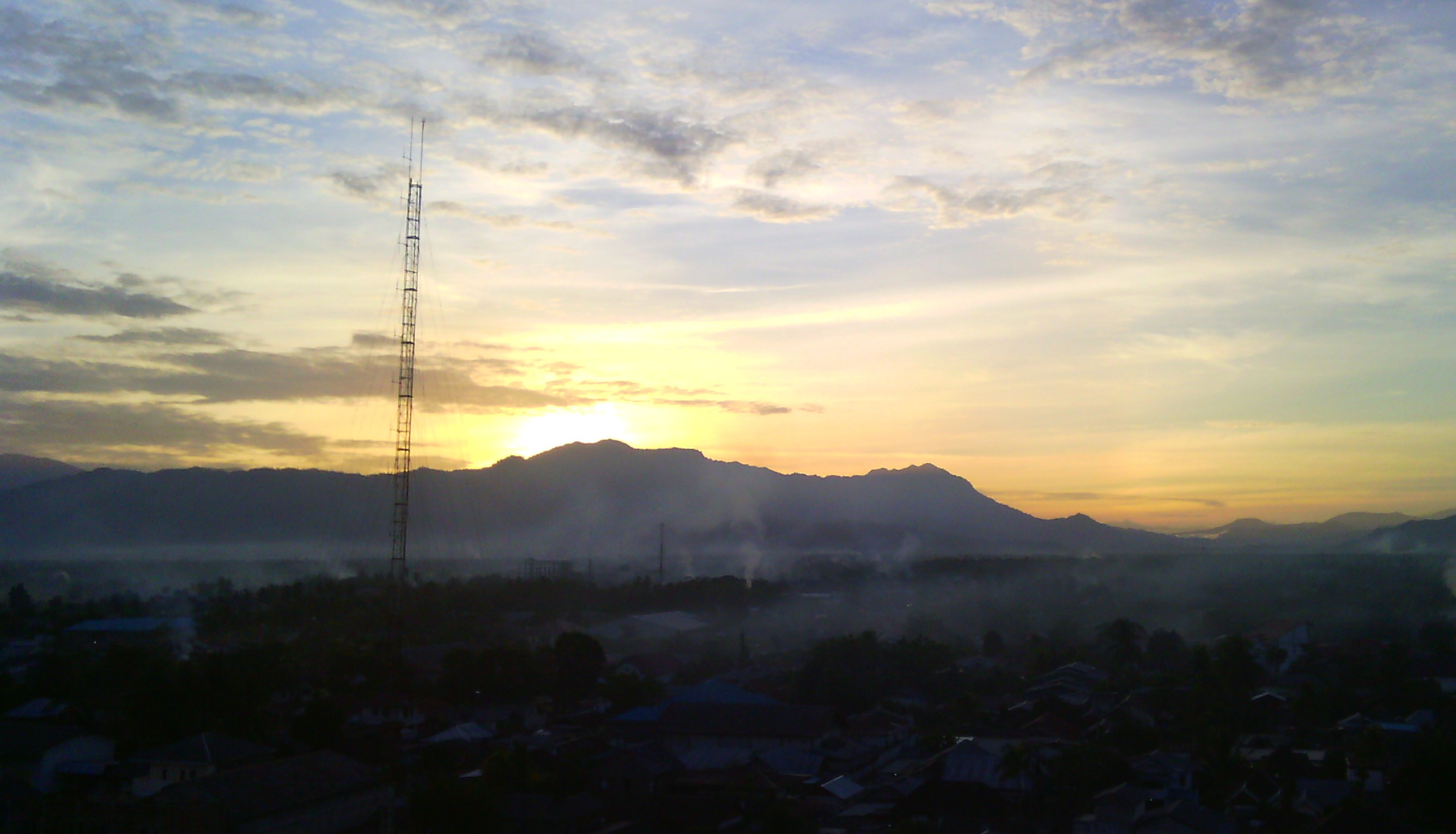 Beautiful scenery sunrise in Mount Tilongkabila, Gorontalo, viewed from Hotel Maqna.